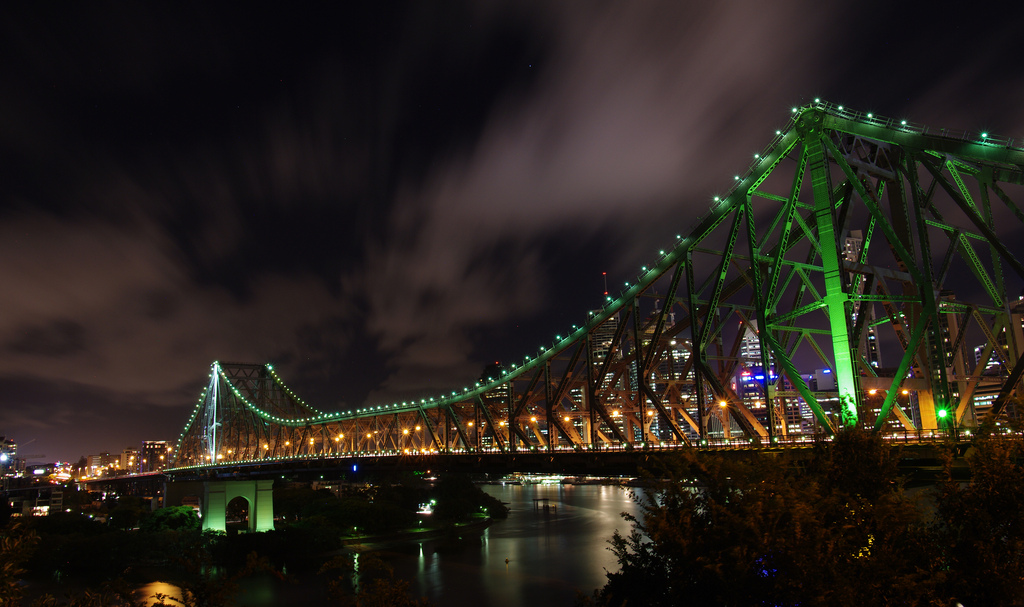 Story Bridge at night